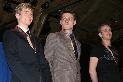 The awarding of the "ISU small medals" for the men's free skate at the 2008 World Championships, presented during the closing banquet. From left: Jeffrey Buttle (1st in the free skate, 1st overall), Brian Joubert (2nd in the free skate, 2nd overall), and Kevin van der Perren (3rd in the free skate, 6th overall).